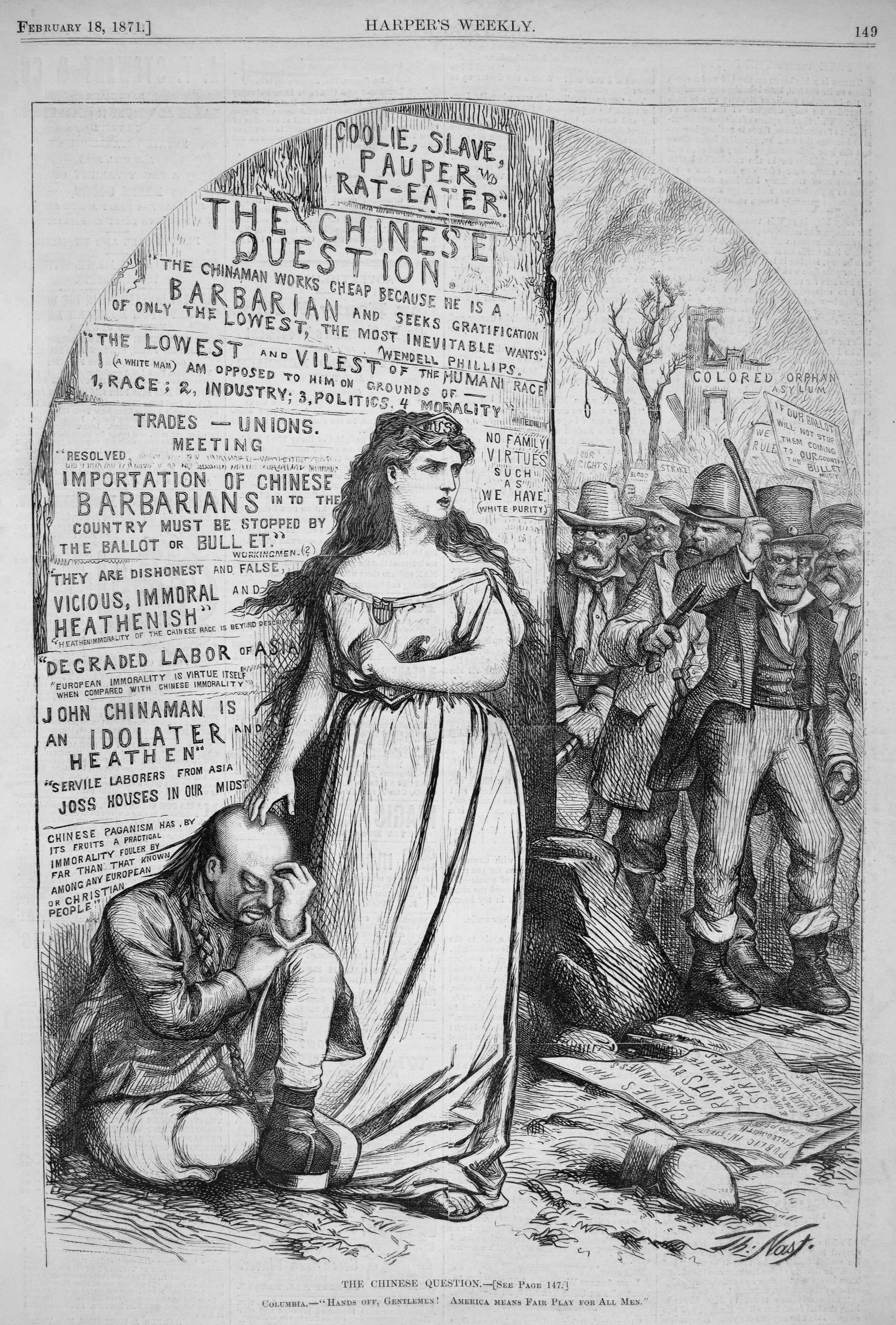 The Chinese Question (February 1871), by Thomas Nast